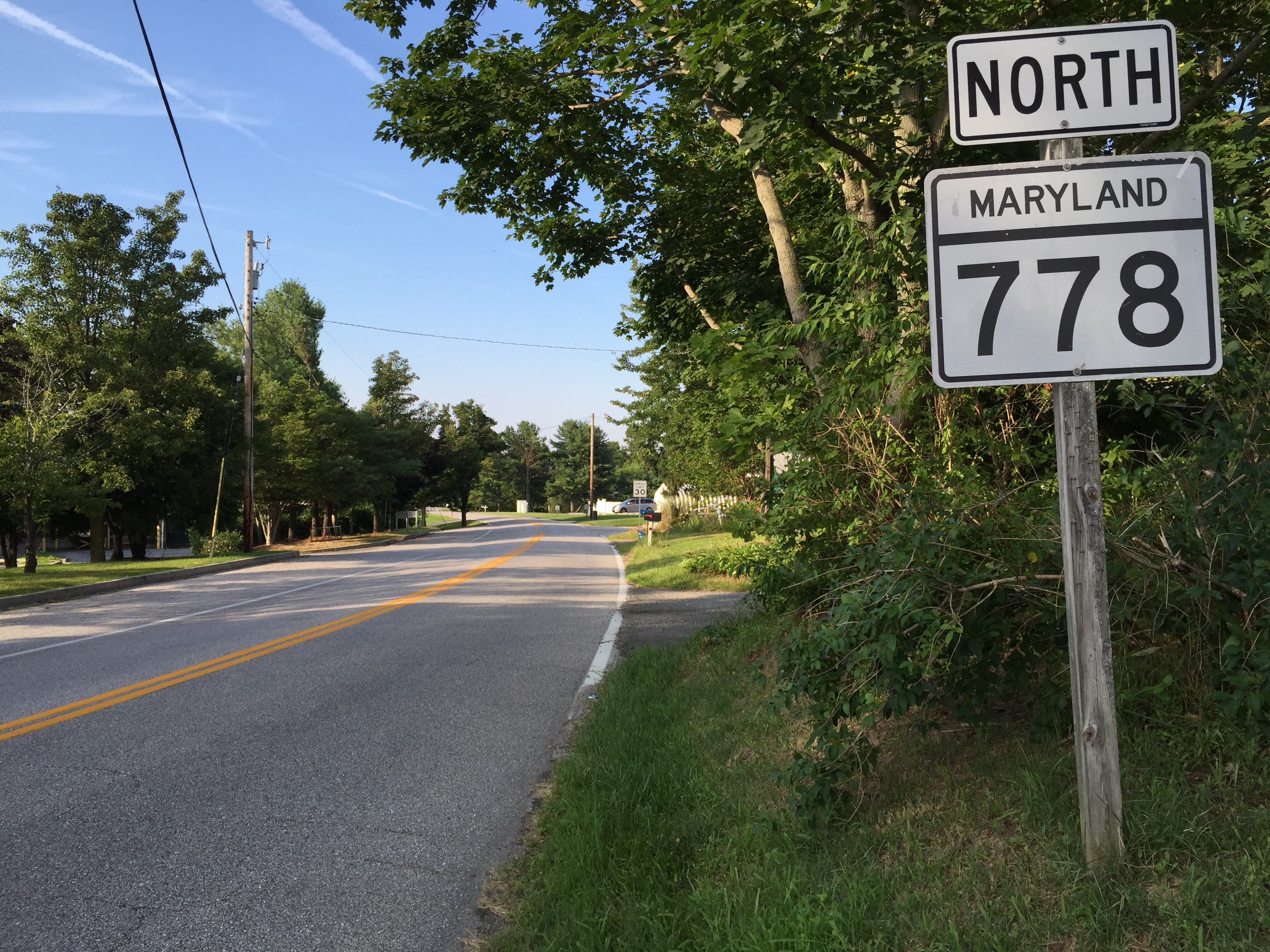 View north along Maryland State 778 (Old Solomons Island Road) just north of Grovers Turn Road in Owings, Calvert County, Maryland